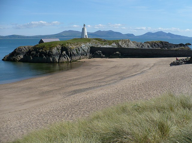 Twr Bach. This beacon, which is older than Twr Mawr lighthouse 858084, has been brought into reuse with a modern light.